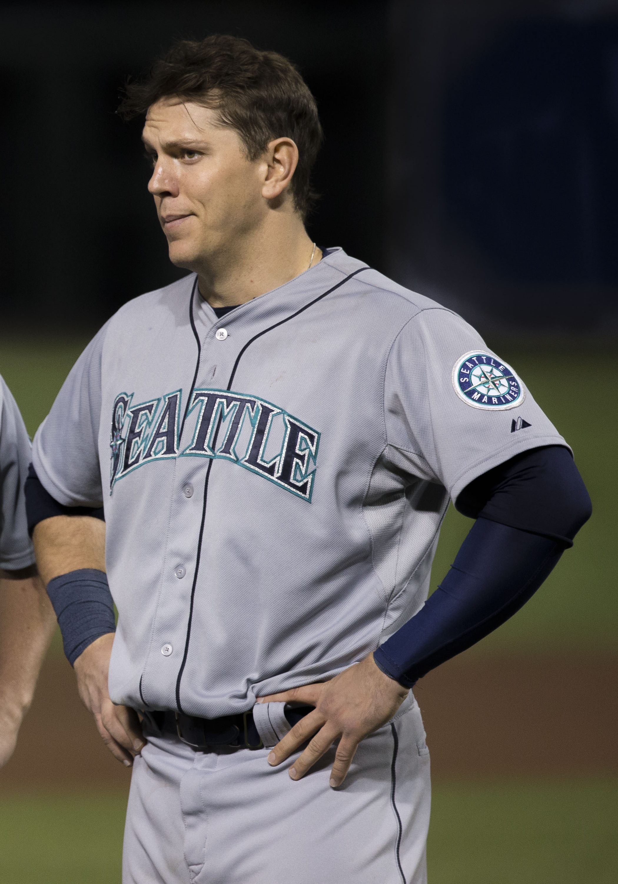 Logan Morrison